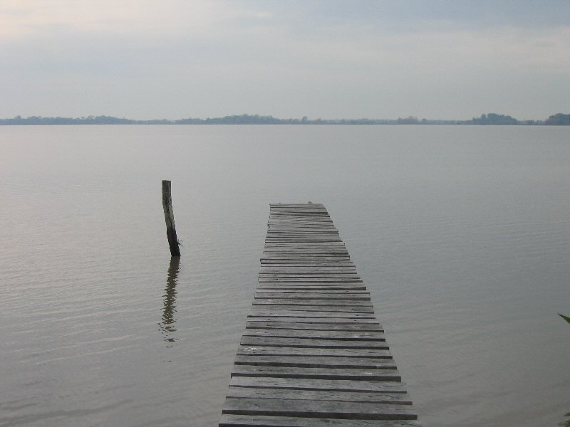 A lake in the region of Beni, in Bolivia.